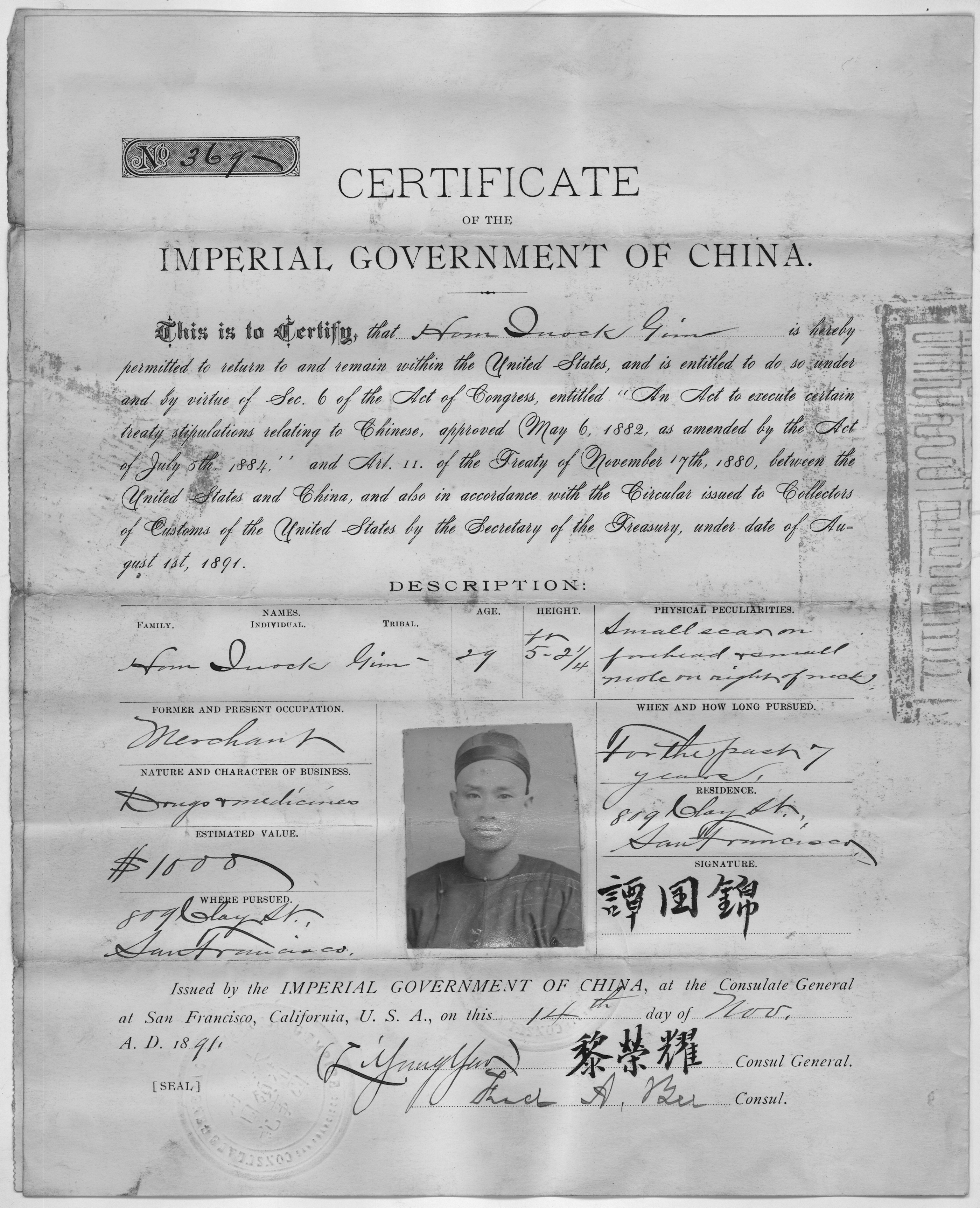 Scope and content: The case to which this document pertains is representative of the many Chinese deportation case files within the records of the US District court at Los Angeles.